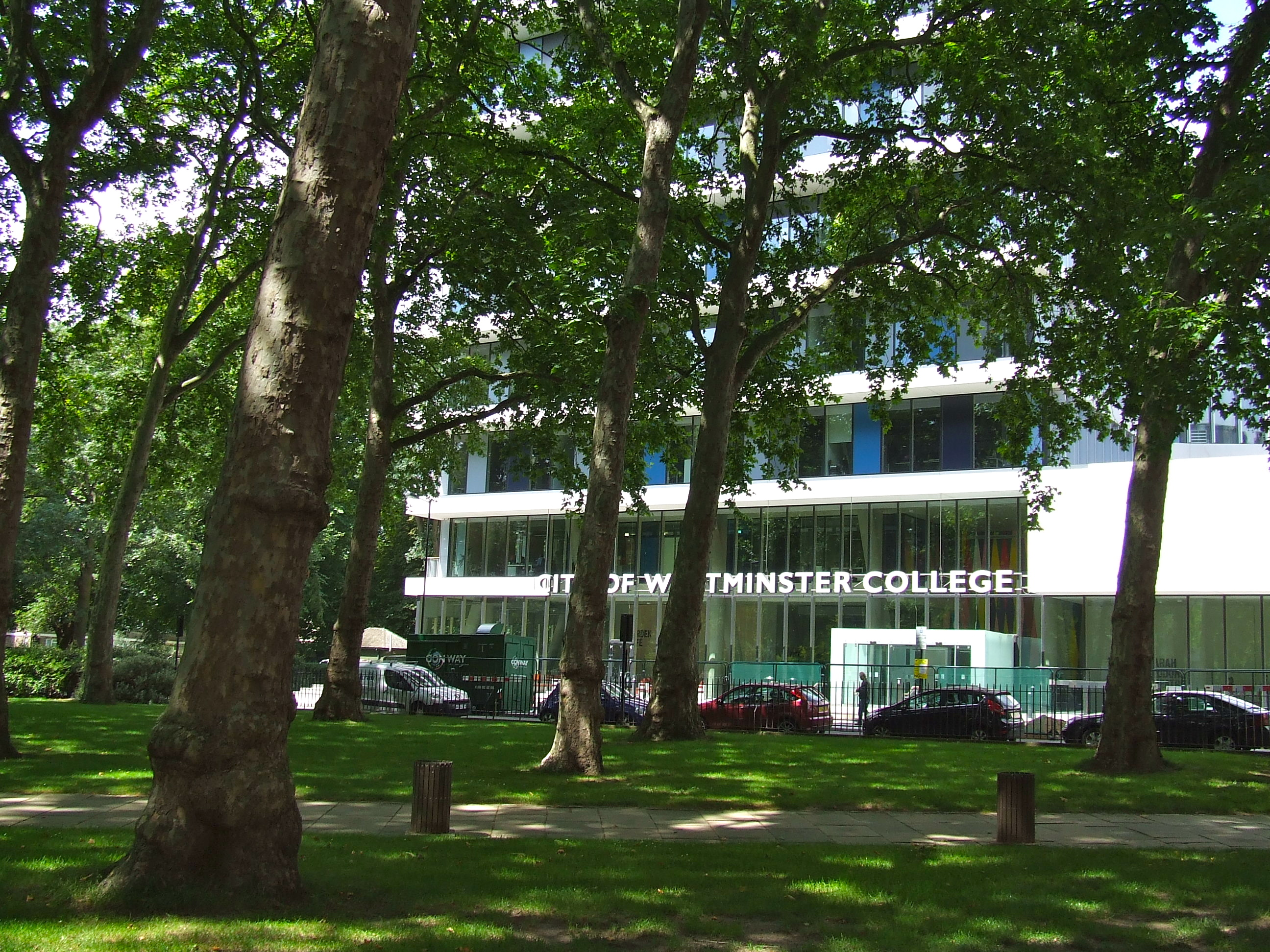 Paddington Green conservation area, showing view to college at 25 Paddington Green